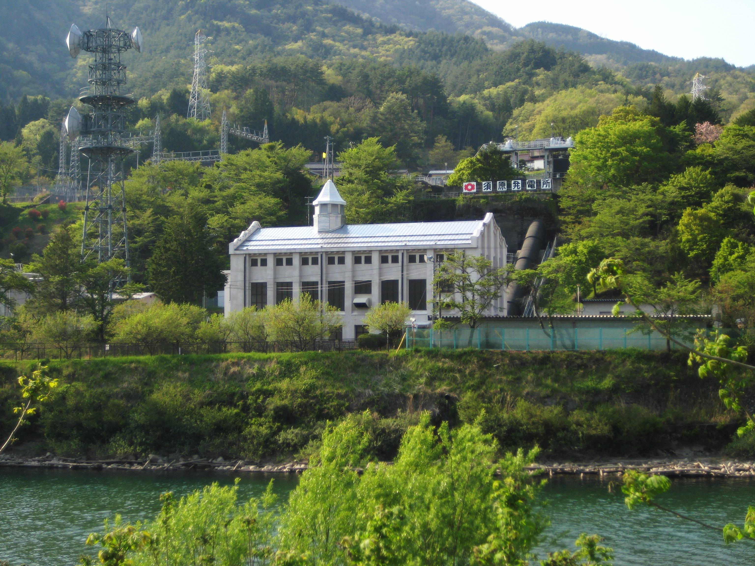 Suhara power station.